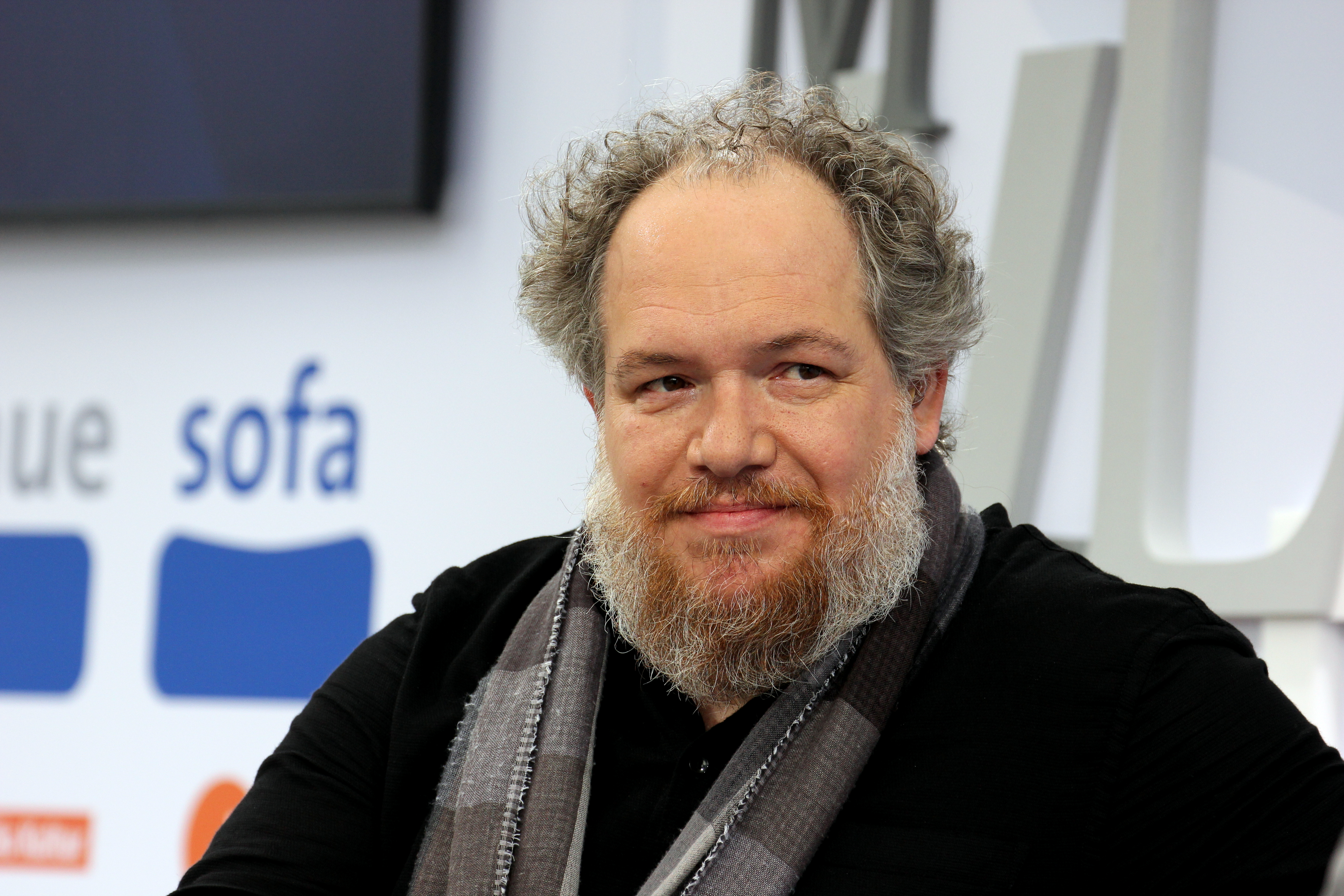 Mathias Énard Leipzig Book Fair 2017